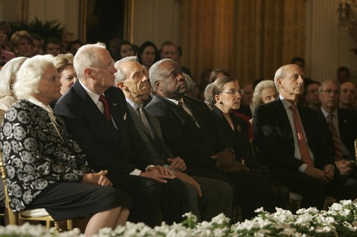 Associate Justices of the U.S. Supreme Court are in attendance Thursday, Sept. 29, 2005, during swearing-in ceremonies for Chief Justice John G. Roberts. From left are: Justice Sandra Day O'Connor; Justice Anthony Kennedy; Justice David H. Souter; Justice Clarence Thomas; Justice Ruth Bader Ginsburg and Justice Stephen G. Breyer. White House photo by Krisanne Johnson